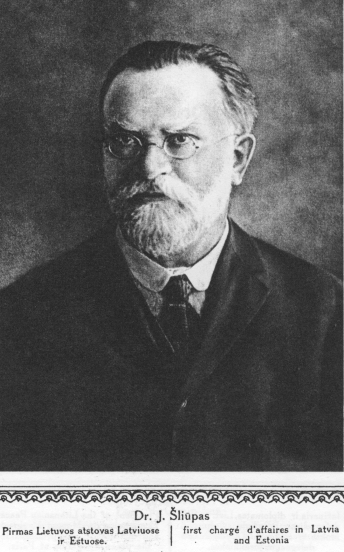 Jonas Šliūpas, Lithuanian physician, journalist